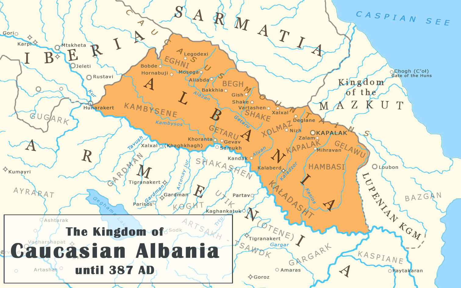 Caucasian Albania until 387 ADMade after: Robert H. Hewsen, Armenia: A Historical Atlas. The University of Chicago Press, 2001. Map 62 (p. 73).